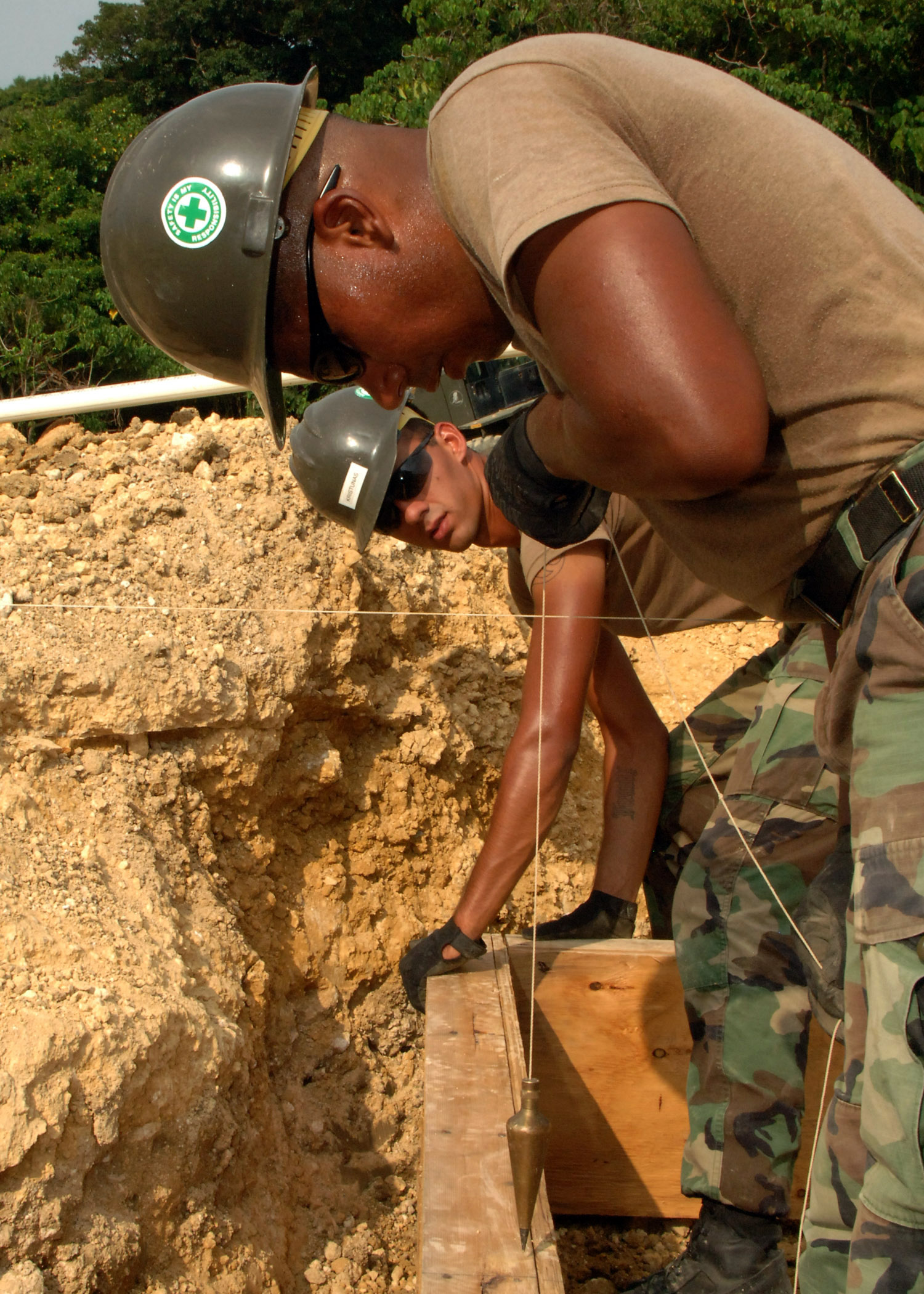 OKINAWA, Japan (Oct. 14, 2008) Builder Constructionman Apprentice Ricardo Guzman, right, and Builder Constructionman Adam Kristunas, both assigned to Naval Mobile Construction Battalion (NMCB) 133, build a form that will be filled with concrete at a construction site on the White Beach Naval Facility in Okinawa, Japan. NMCB 133, homeported in Gulfport, Miss., is on a seven month deployment to Okinawa. (U.S. Navy photo by Mass Communication Specialist Chief Petty Officer Ryan C. Delcore/Released)